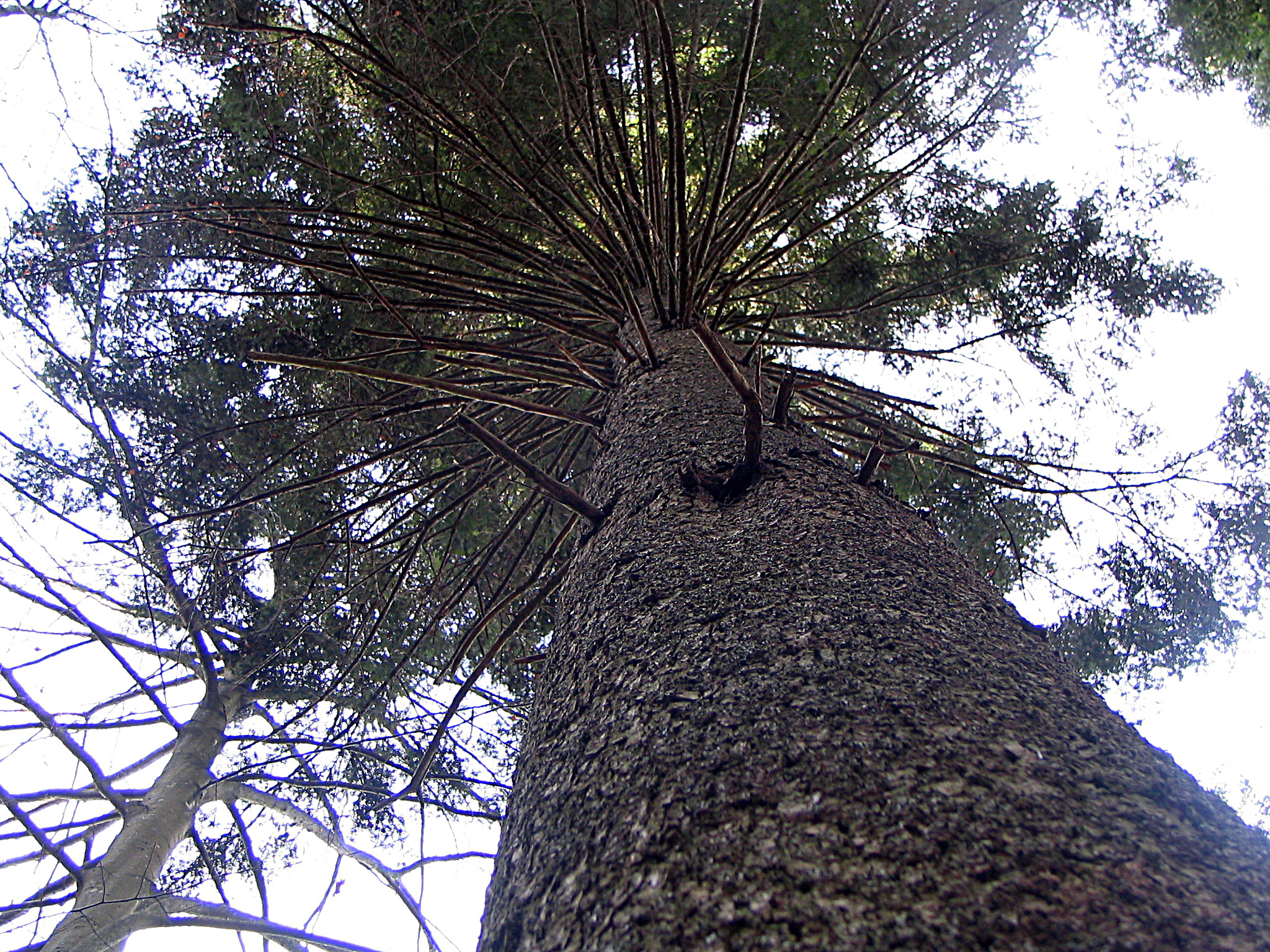 Tree of Abies alba from seed stand (Goc mountain